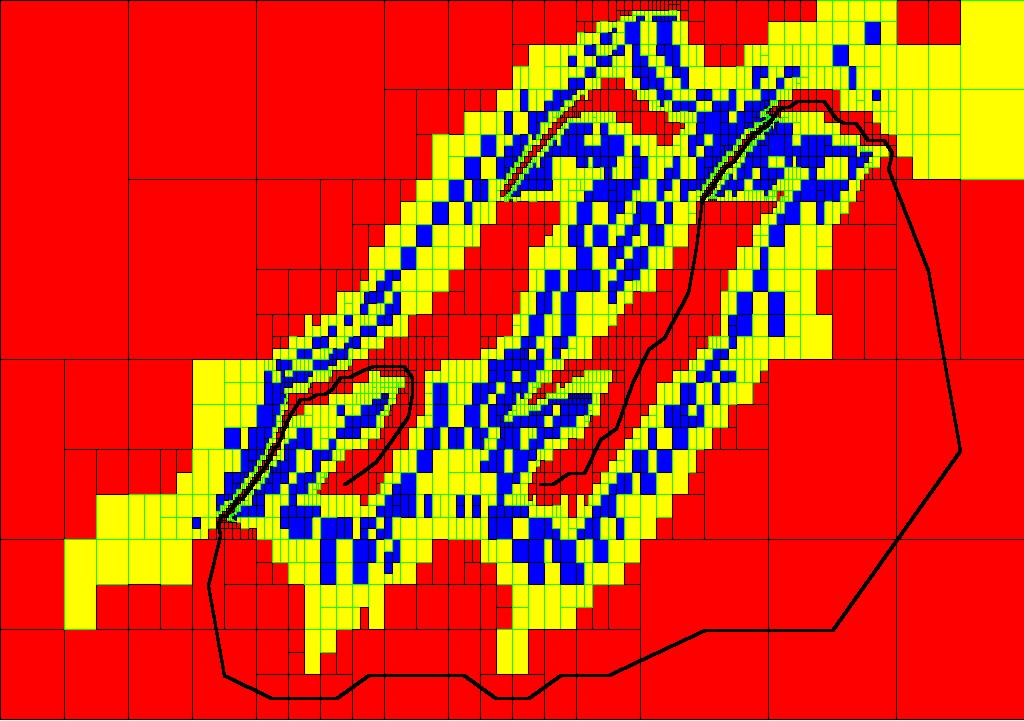 Feasible path obtained in the configuration space after a decomposition with less boxes